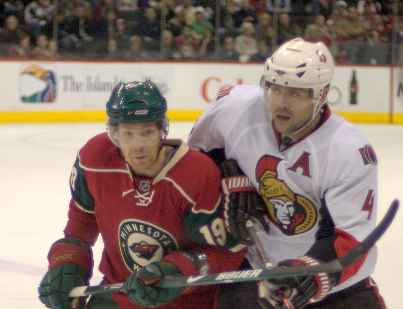 #19 Stéphane Veilleux vs #4 Chris Phillips, Wild vs. Senators